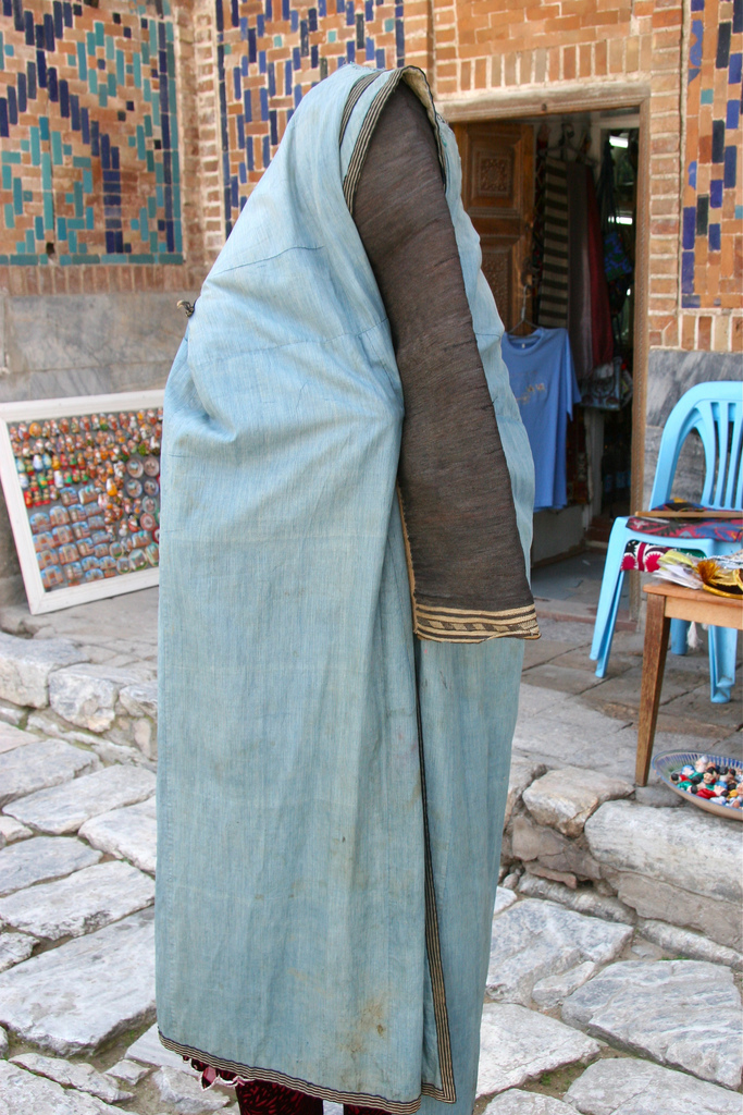 example of an Uzbek paranja